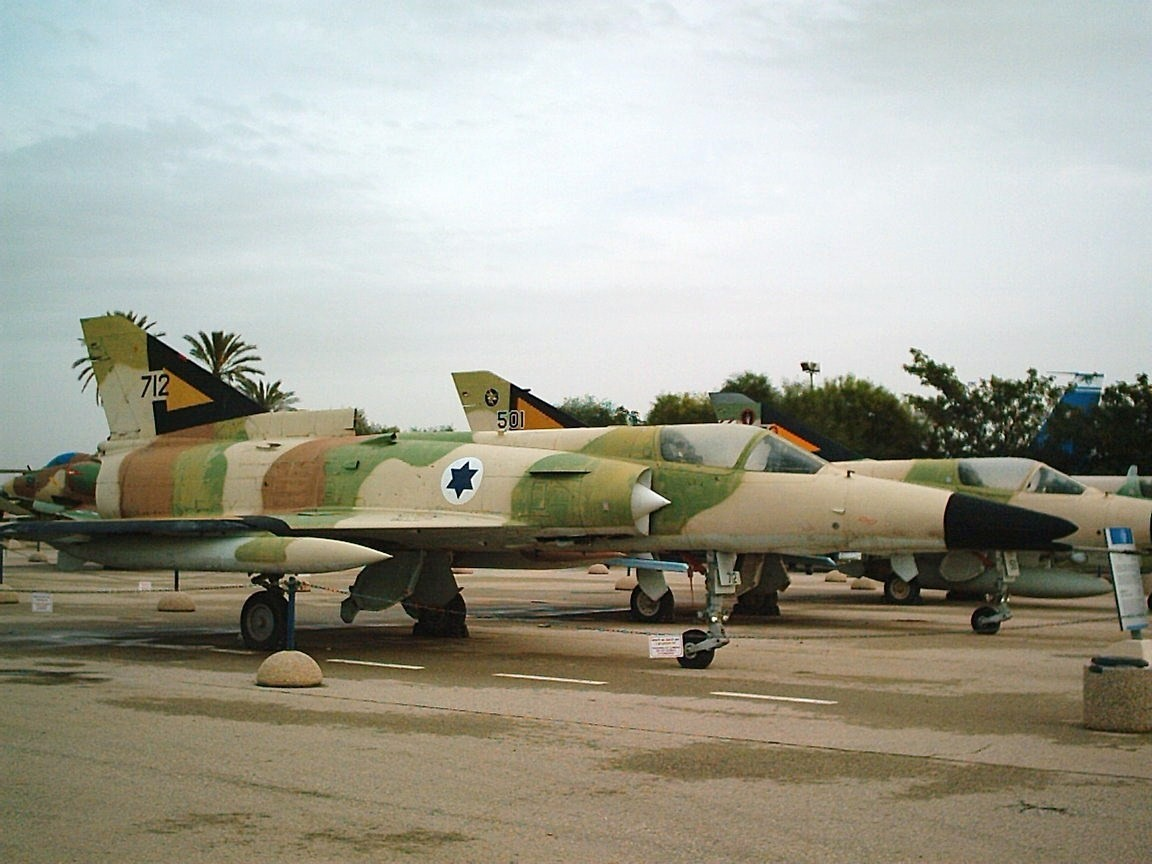 Kfir in the IDF/AF Museum.